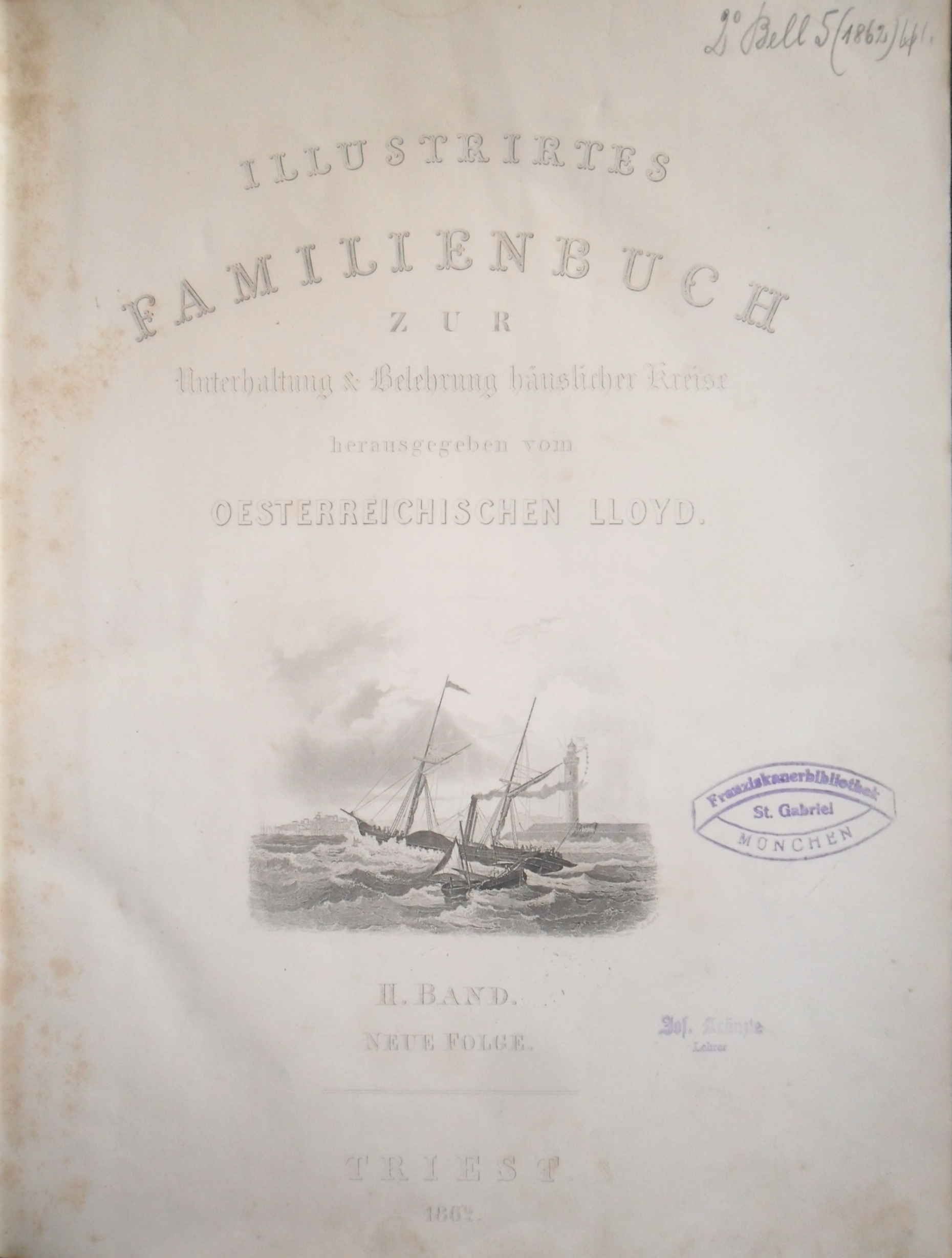 Title page of the journal "Familienbuch", Lloyd Triest 1862